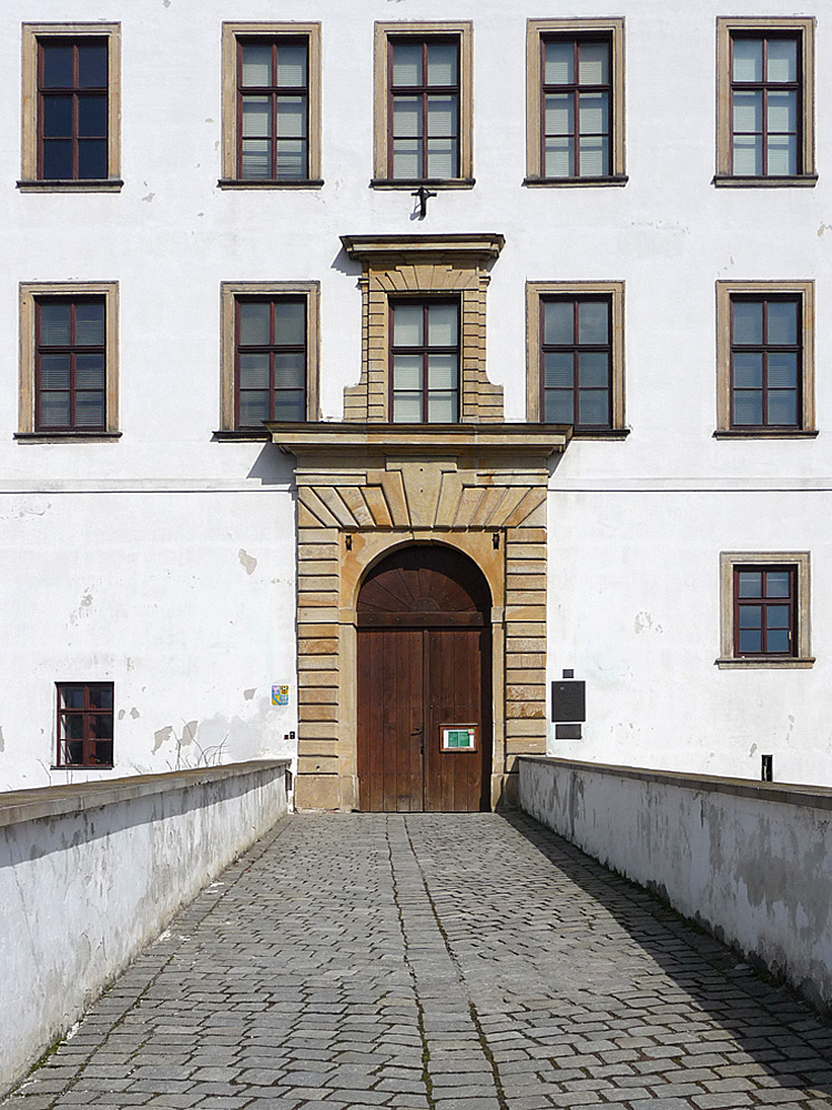 Usov Castle, Czech Republic